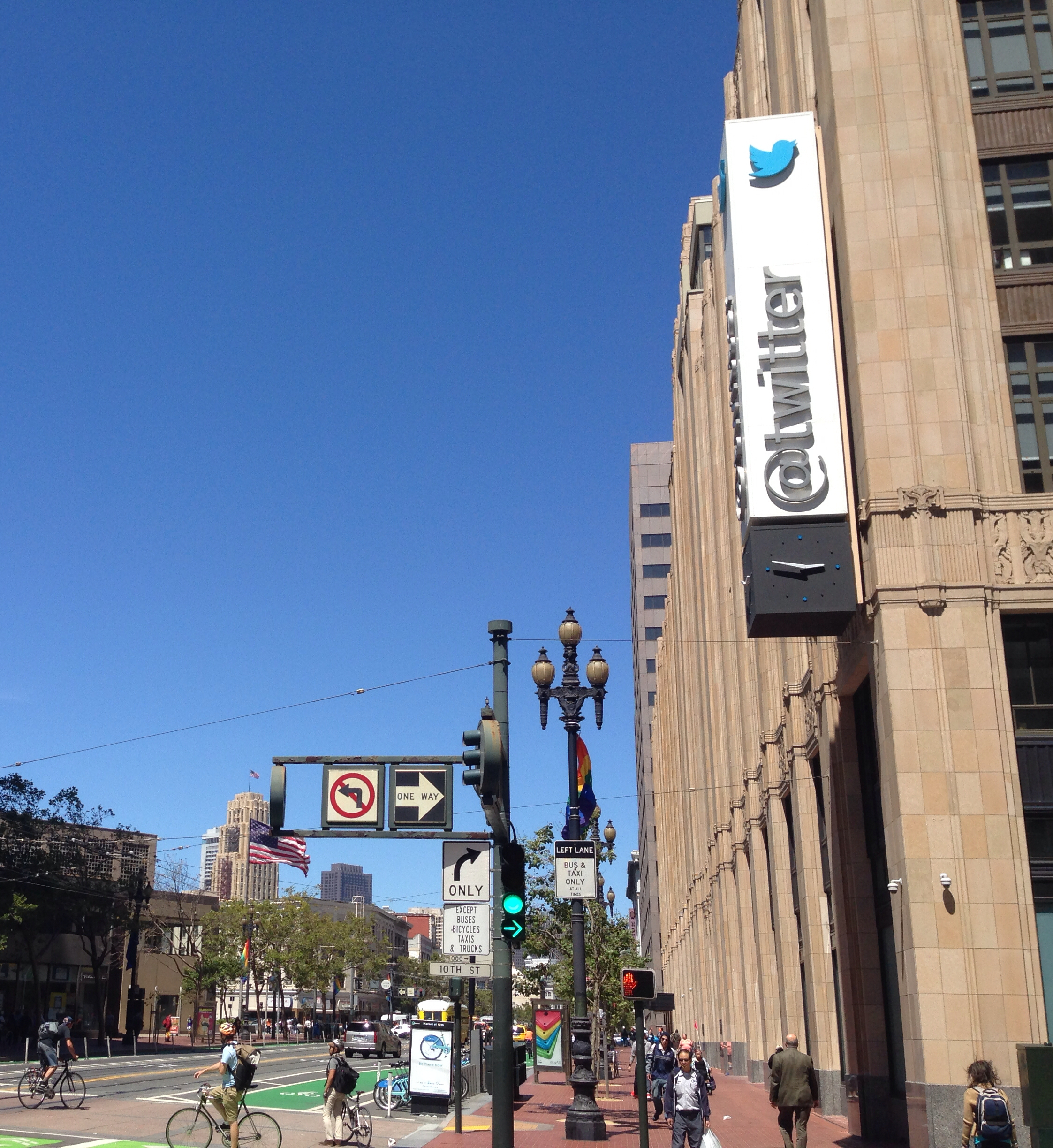 The San Francisco, California headquarters of the social media website Twitter.